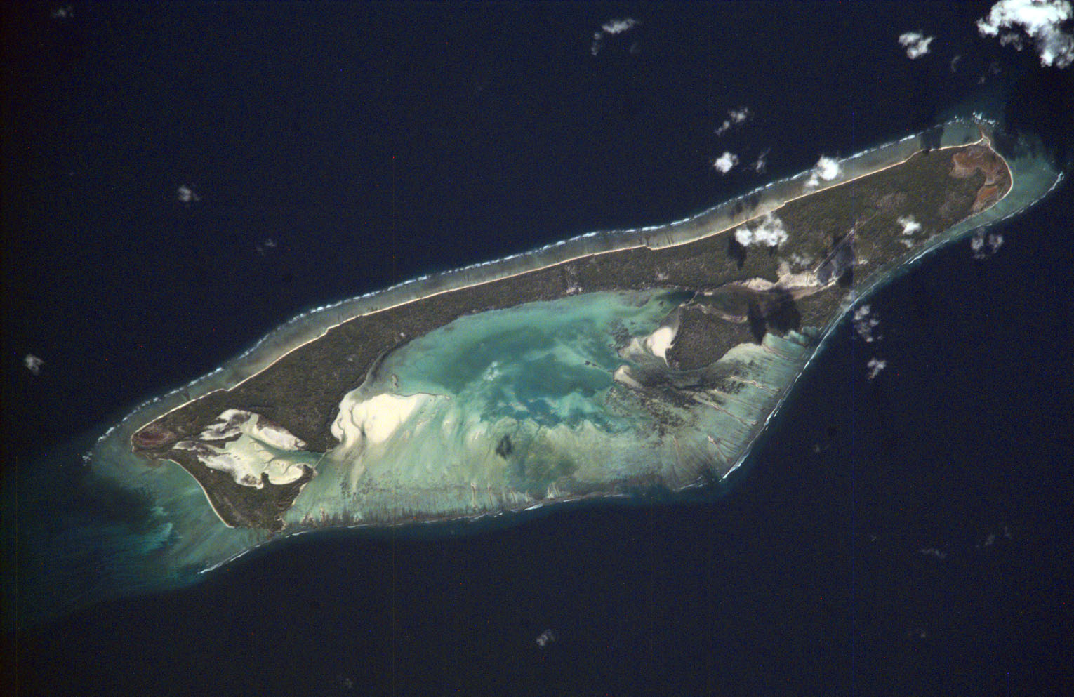 NASA astronaut image of Beru Island, Gilbert Islands, Kiribati